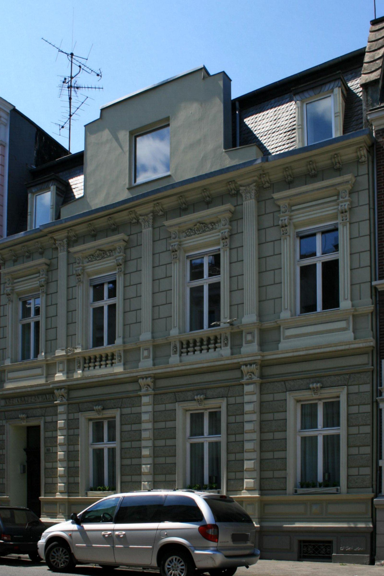 Cultural heritage monument No. R 052 in Mönchengladbach